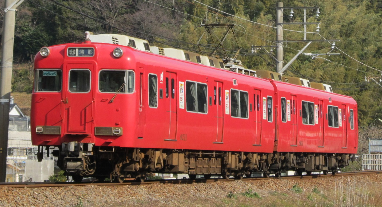 Meitetsu 6000 series. Bound for Gamagōri.